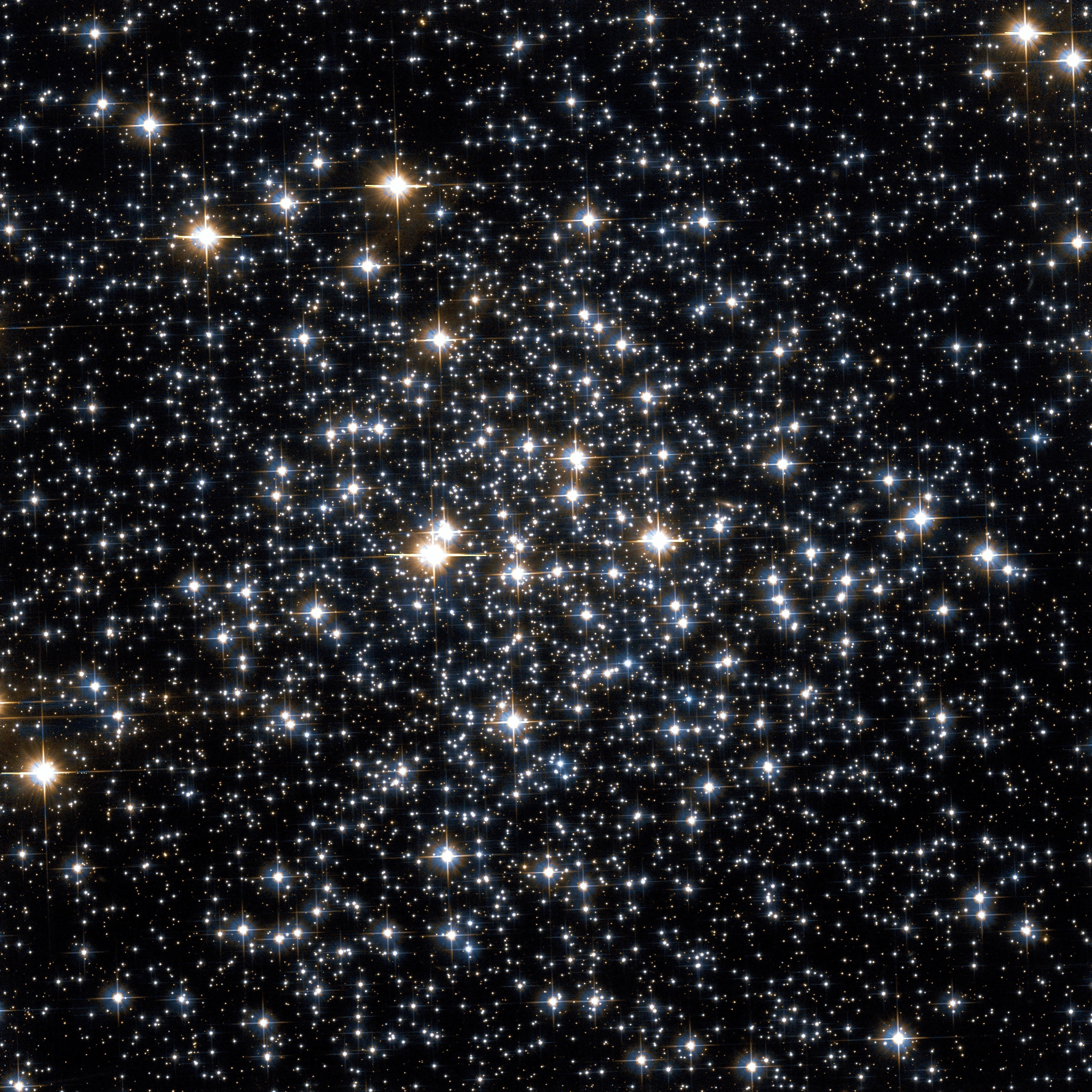 Messier 71 globular cluster by Hubble Space Telescope; 3.35′ view